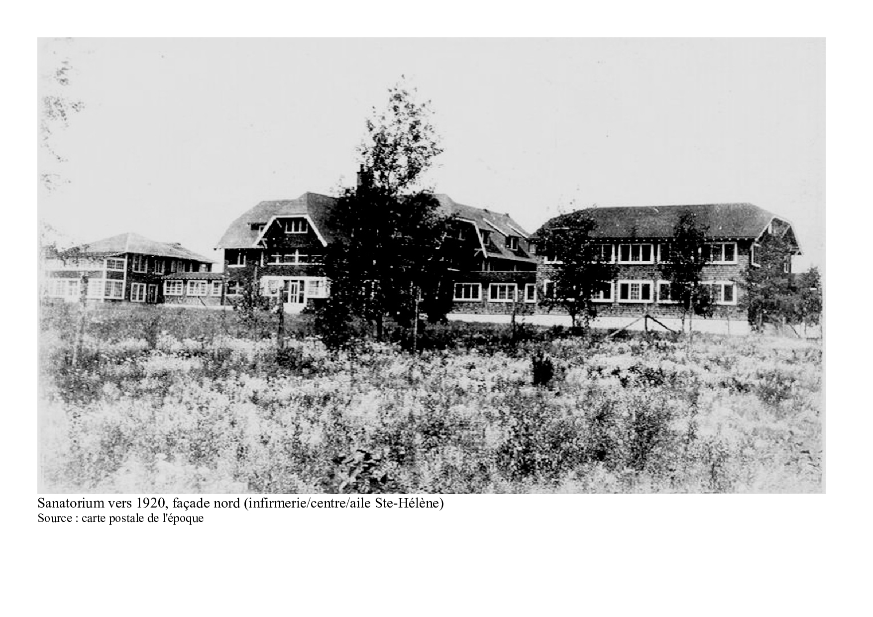 lake Edward Sanatorium (1918-1925 period)